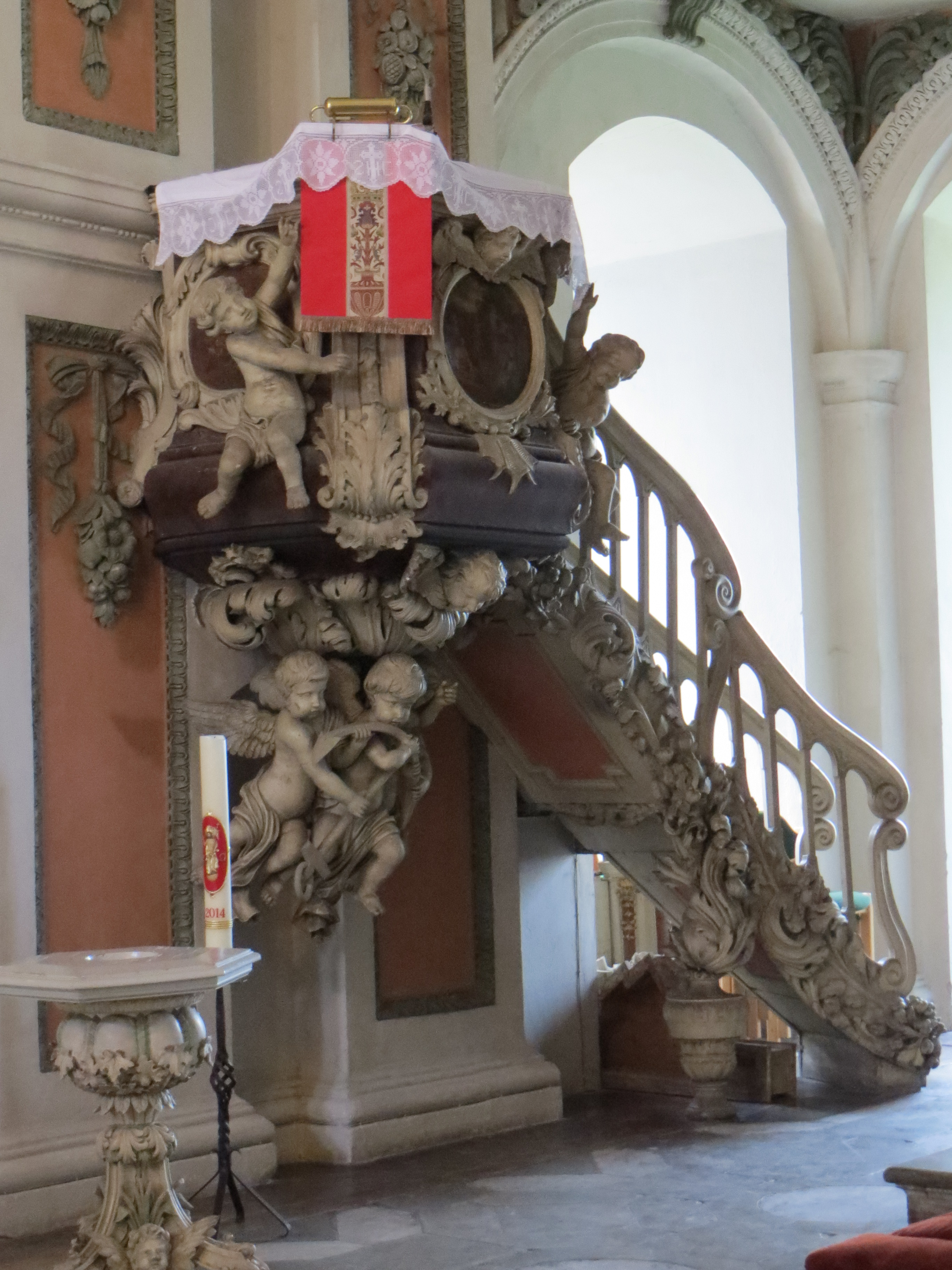 Schlosskirche Weissenfels